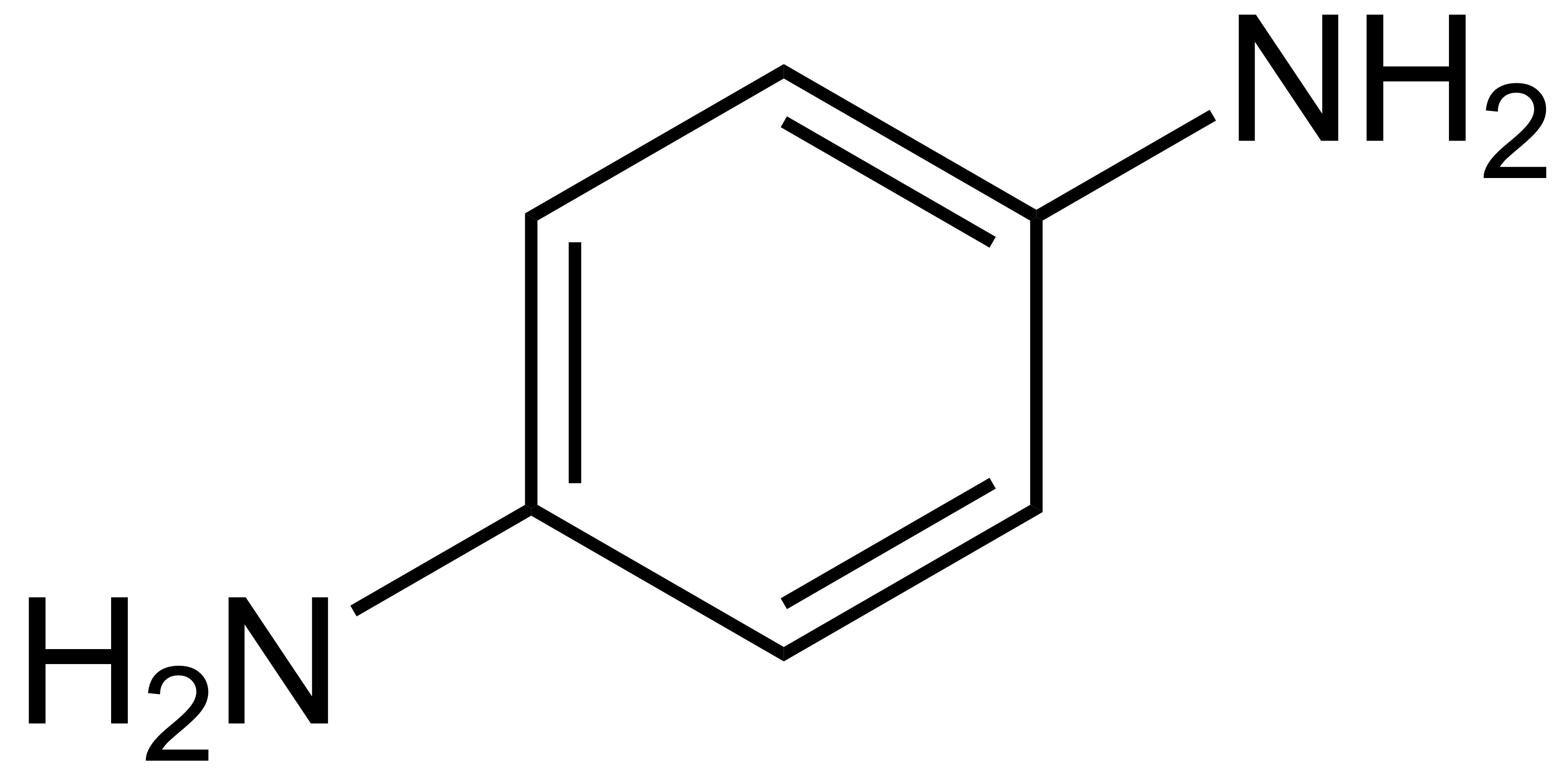 Chemical structure of p-phenylenediamine